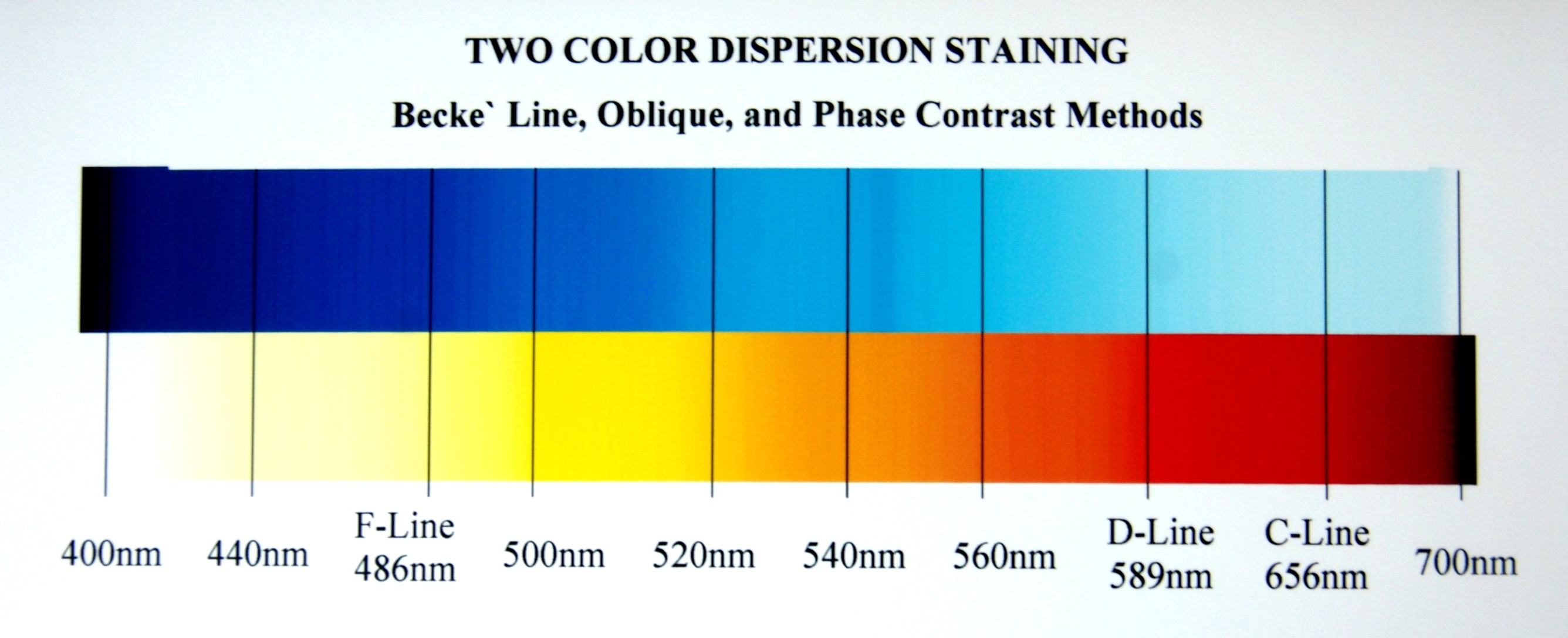 This chart shows the dispersion colors for particles matching the refractive index of the mounting medium for various wavelengths.